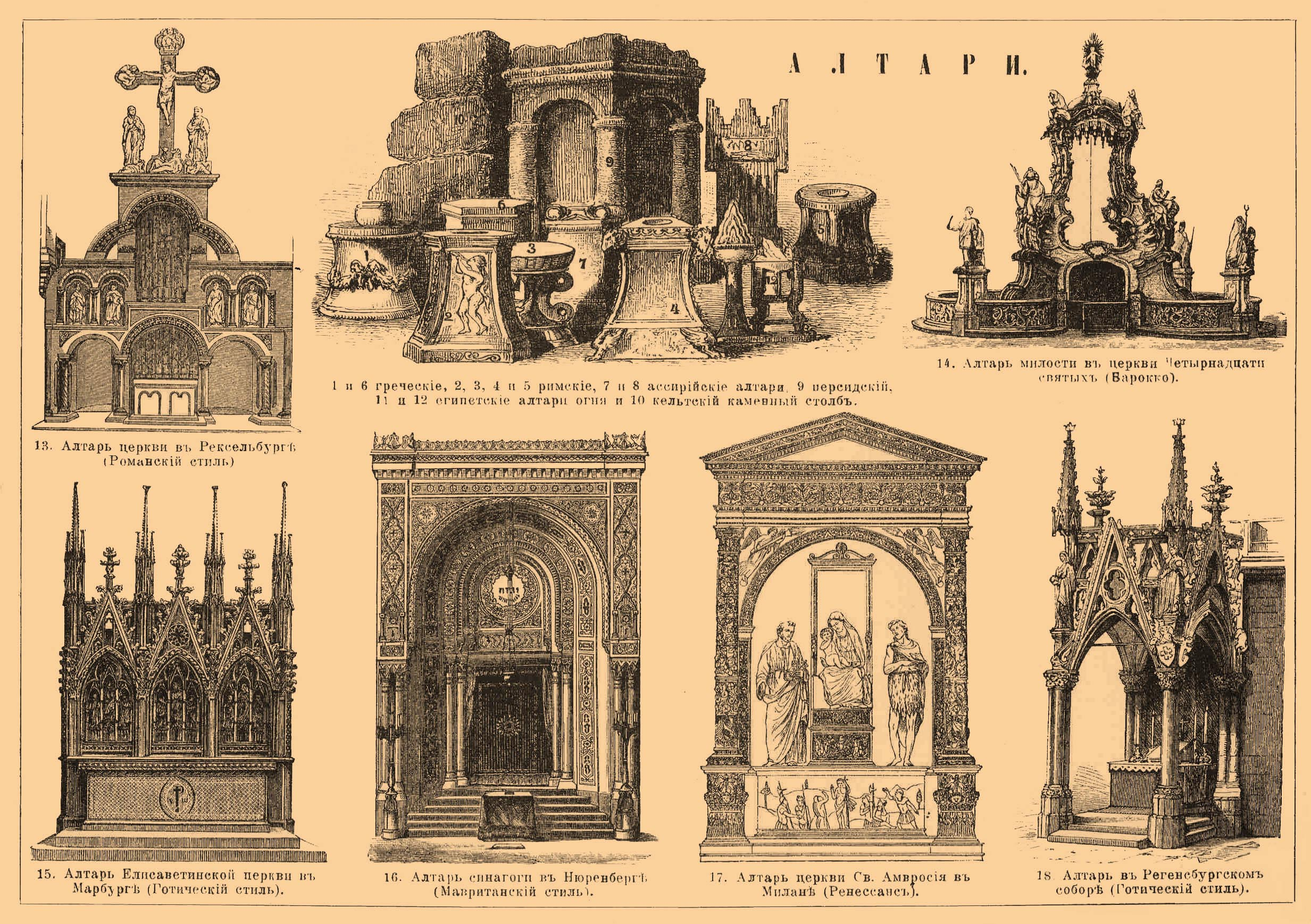 Illustration from Brockhaus and Efron Encyclopedic Dictionary (1890—1907)